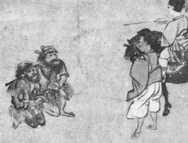 This is a painting of Emishi (left) paying homage to Prince Shotoku (right) (1321–4). It is a precursor to Ainu genre painting. A copy of the artwork was made from an Emaki-mono (illustrated handscroll) called "Shotokutaishi e-den e-maki" in 1324. The original dates from 1069.